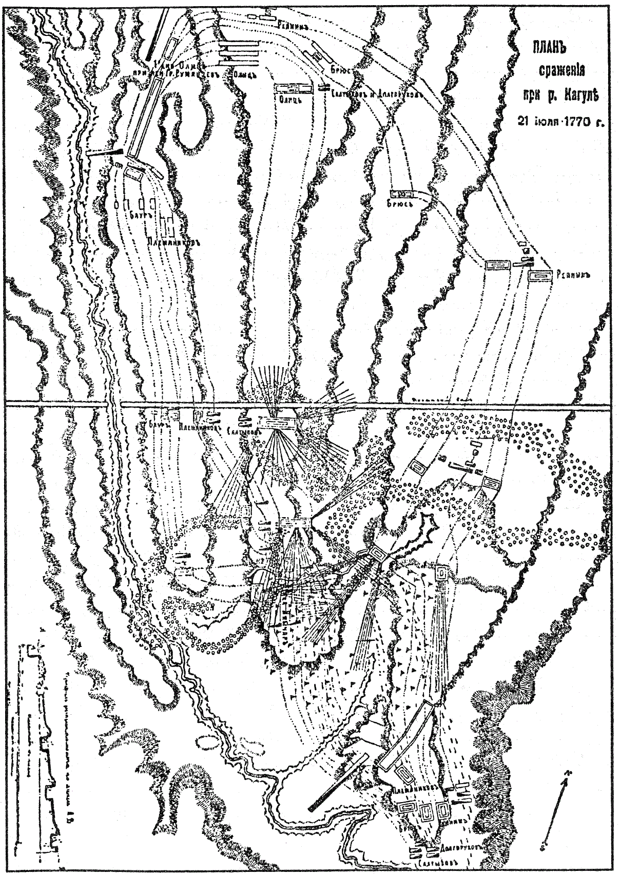 Map of the battle of Kagul.